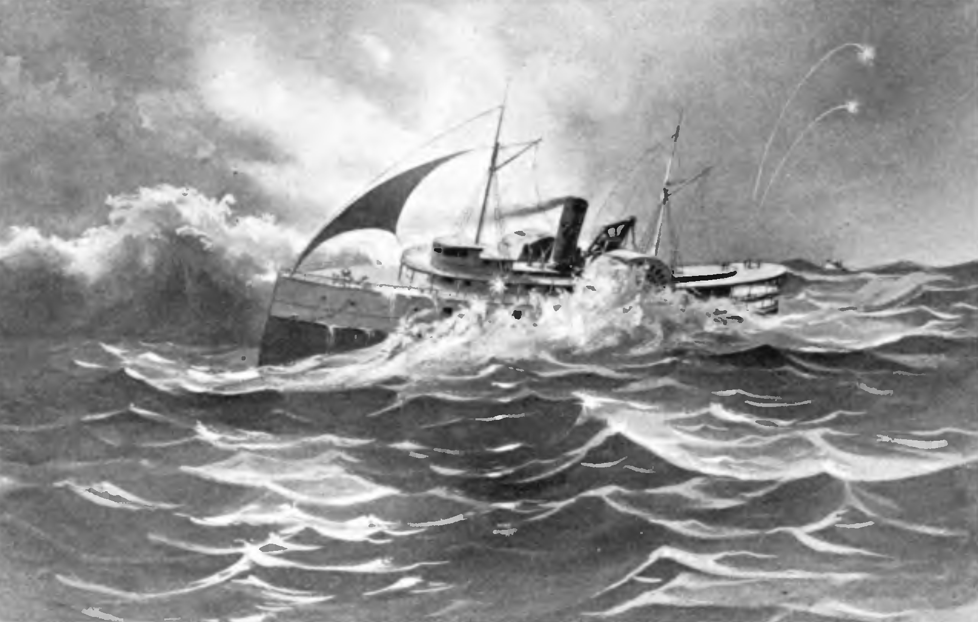 Painting of the sinking of the sidewheeler Alaskan